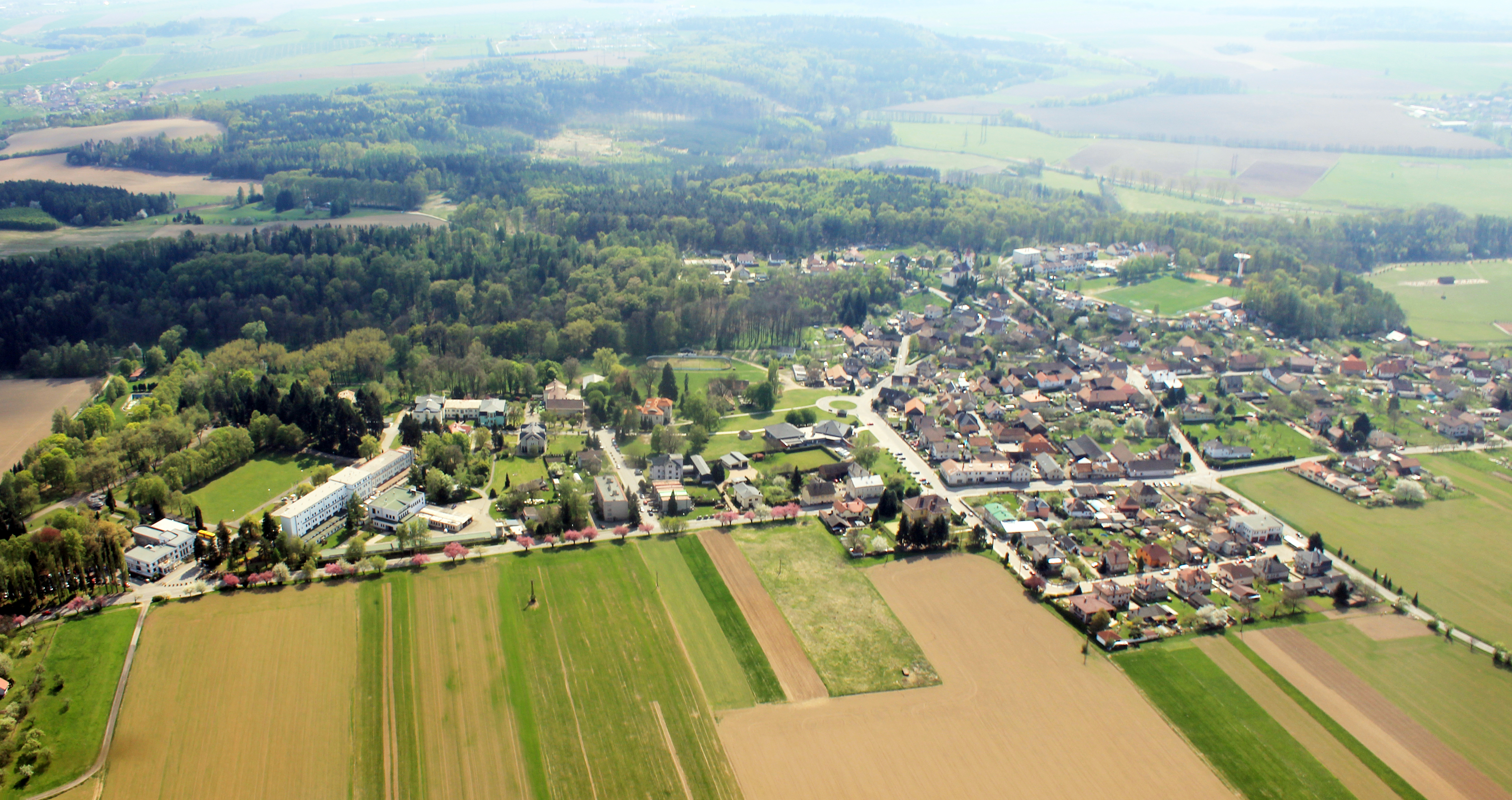 Village and small spa Velichovky from air, eastern Bohemia, Czech Republic